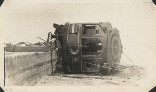 Interurban passenger car off track after 1915 Galveston Hurricane